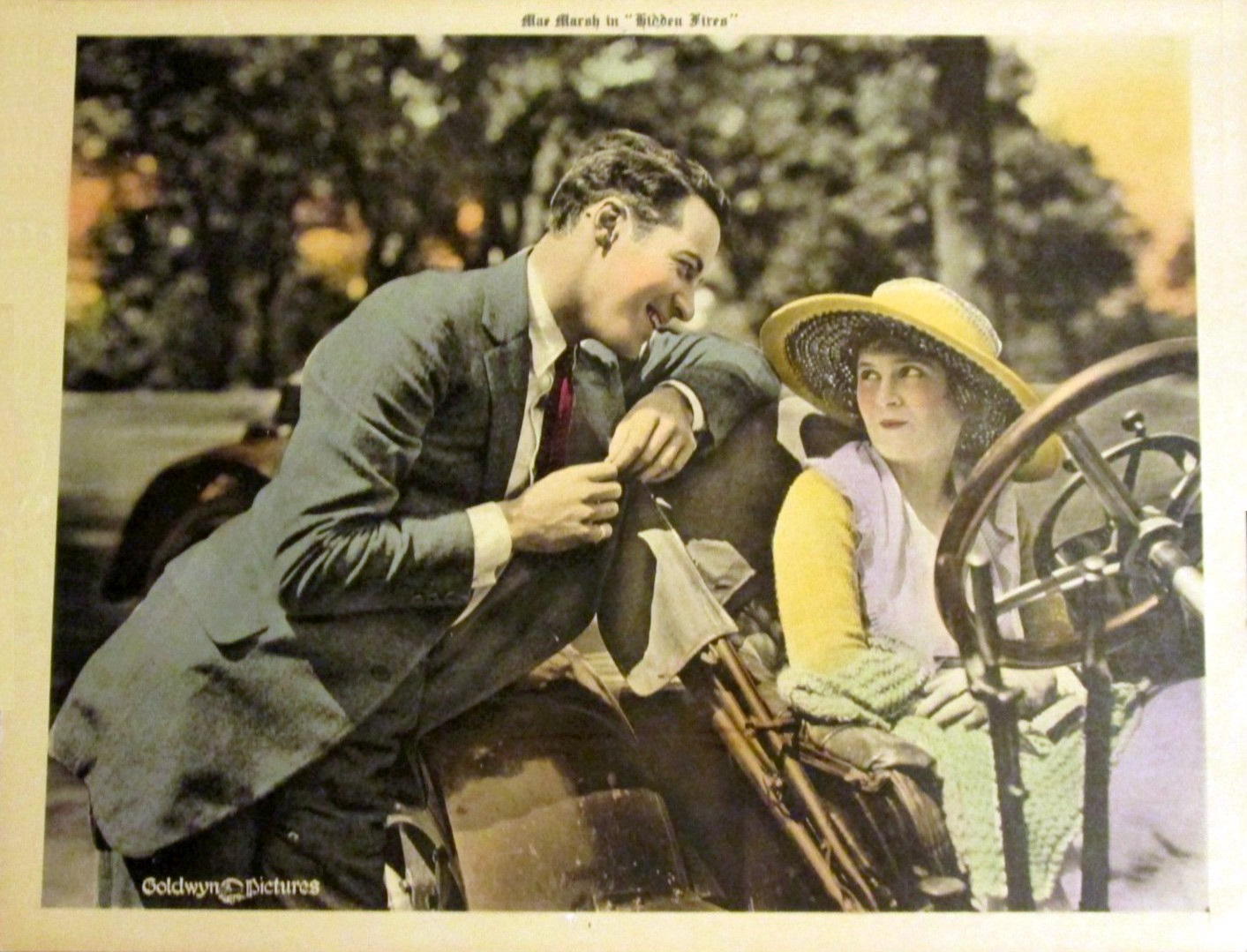 Lobby card for the American comedy drama film Hidden Fires (1918) with Mae Marsh.